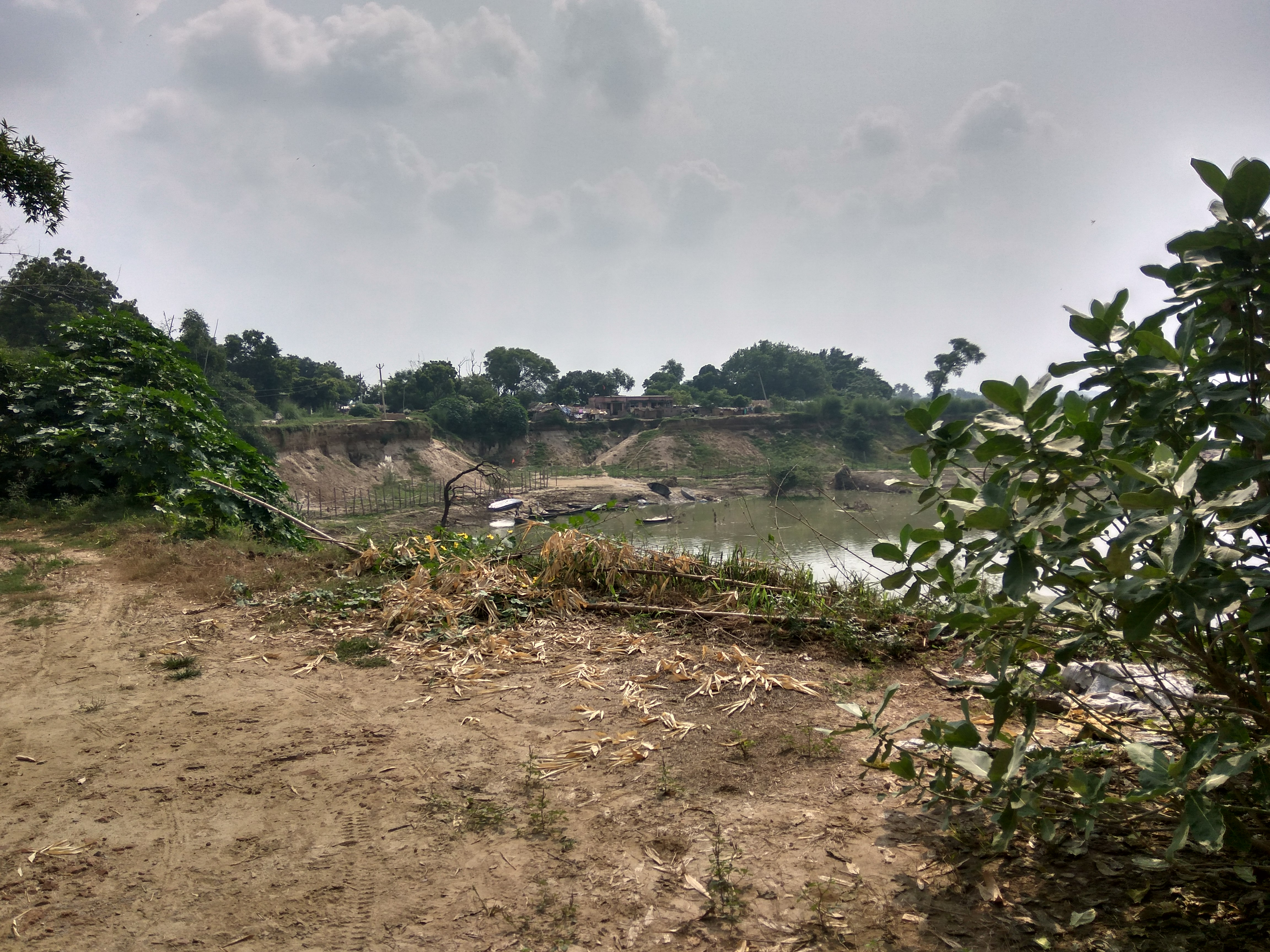 Semra land coalition